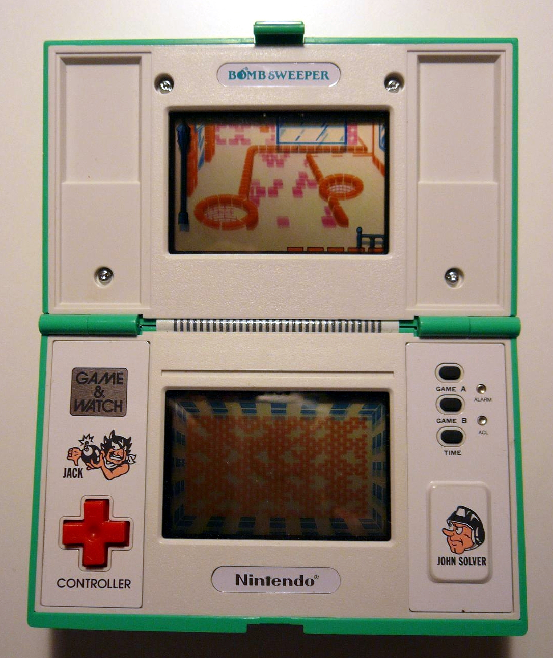 Bomb Sweeper - Game&Watch - Nintendo